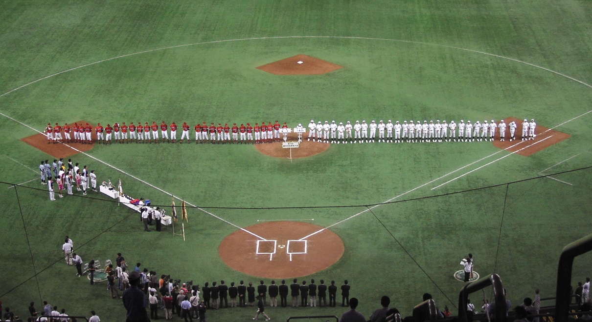 The Intercity Baseball Tournament 2007